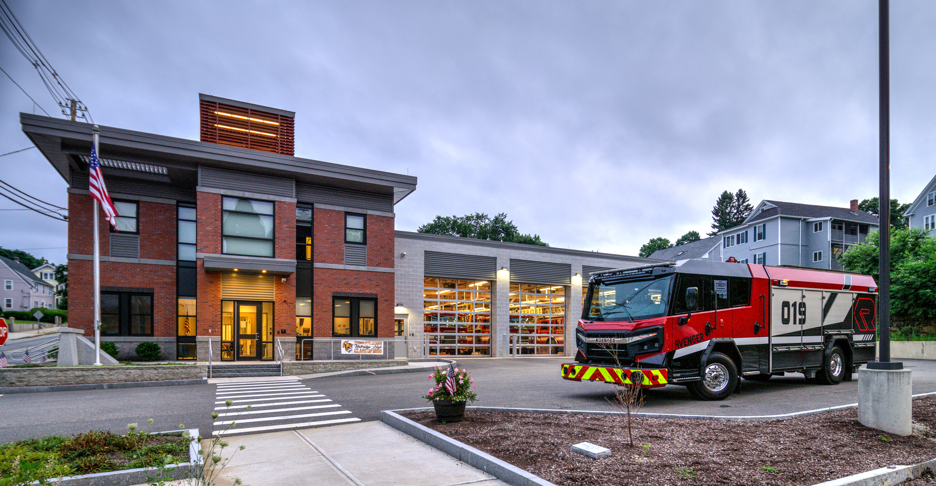 Uxbridge, Massachusetts fire station. Built 2017, designed by Context Architects.